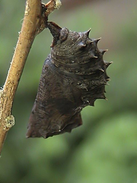 Great Eggfly pupa